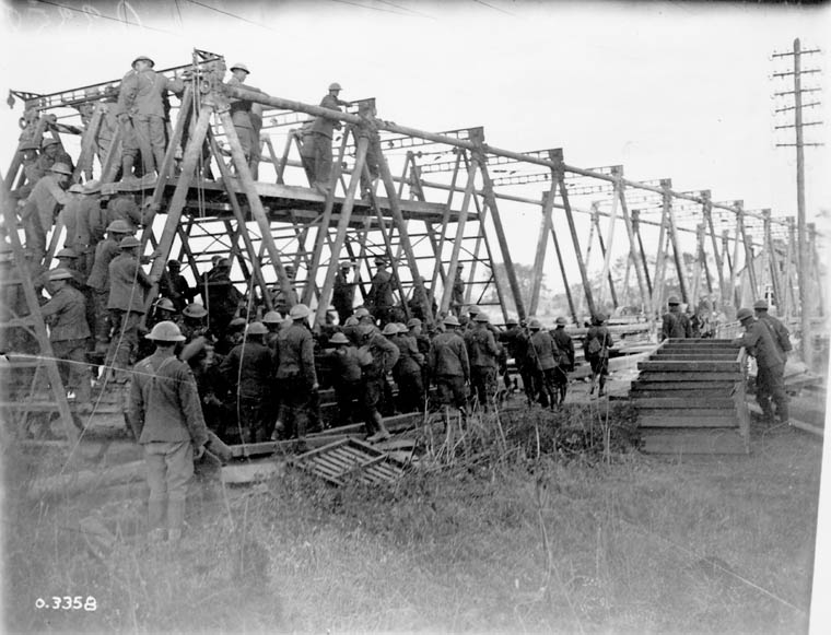 Canadians building a bridge across the Canal du Nord, France.